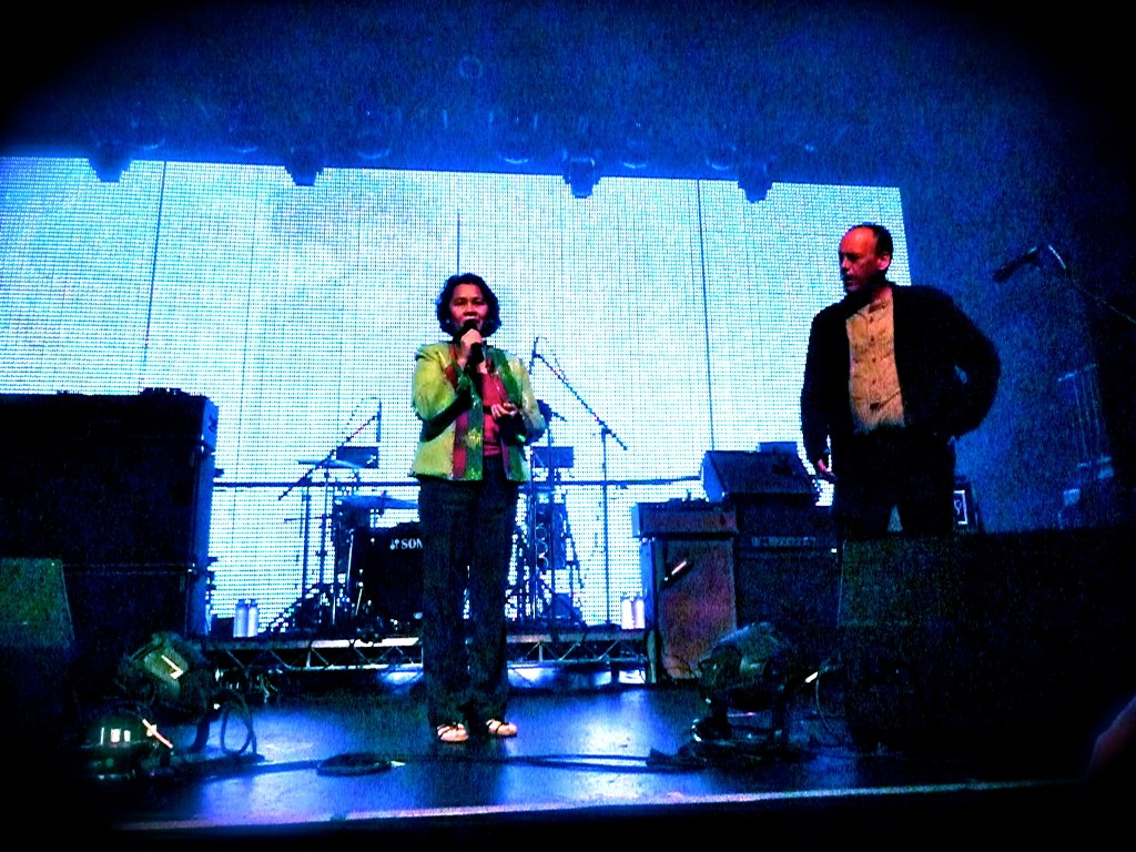 Abolitionists Cecilia Flores-Oebanda and David Batstone speaking at an event organized by Not for Sale, a not-for-profit organization that opposes human trafficking